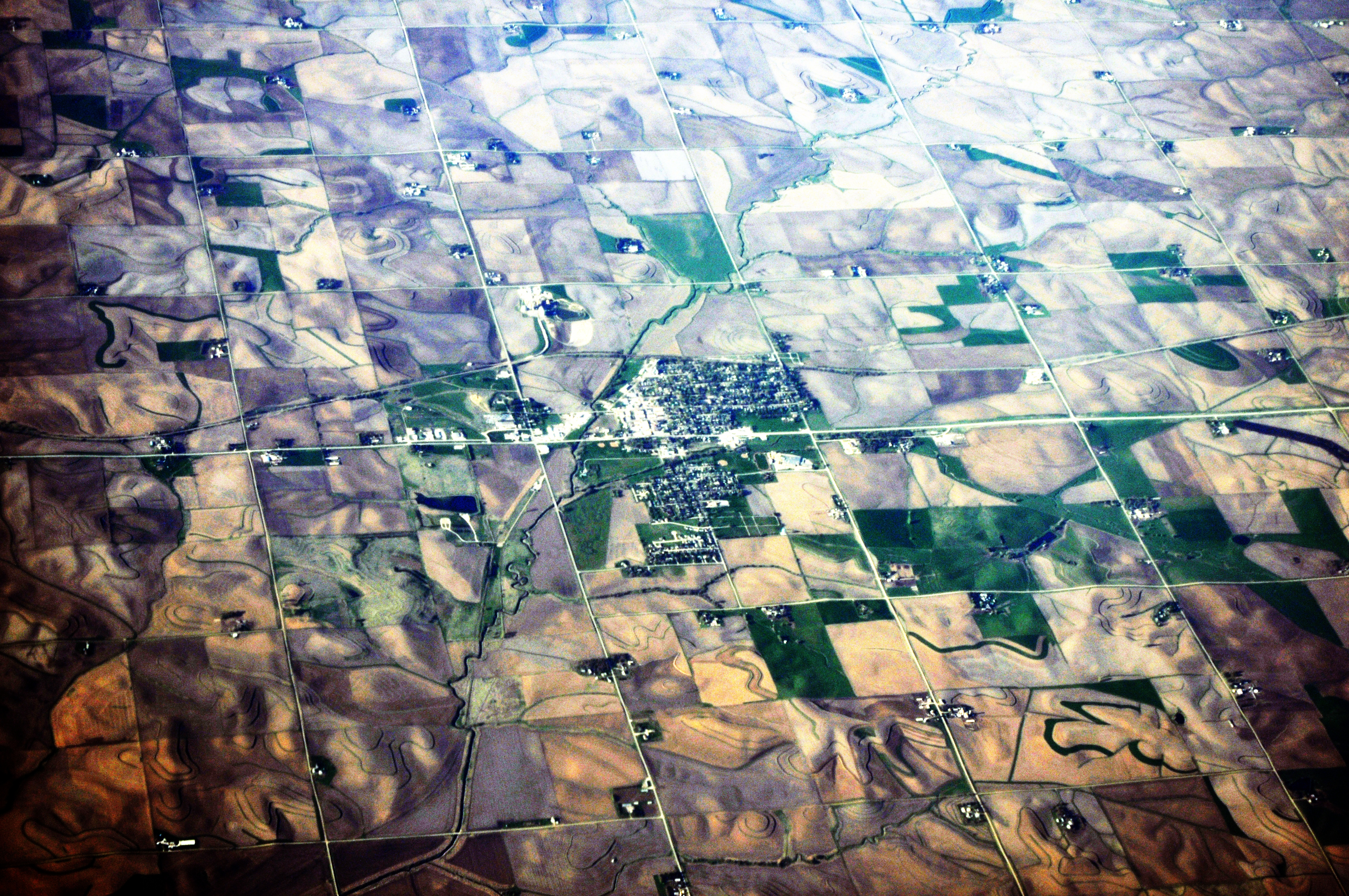 Aerial photo of Manning, Iowa, USA.